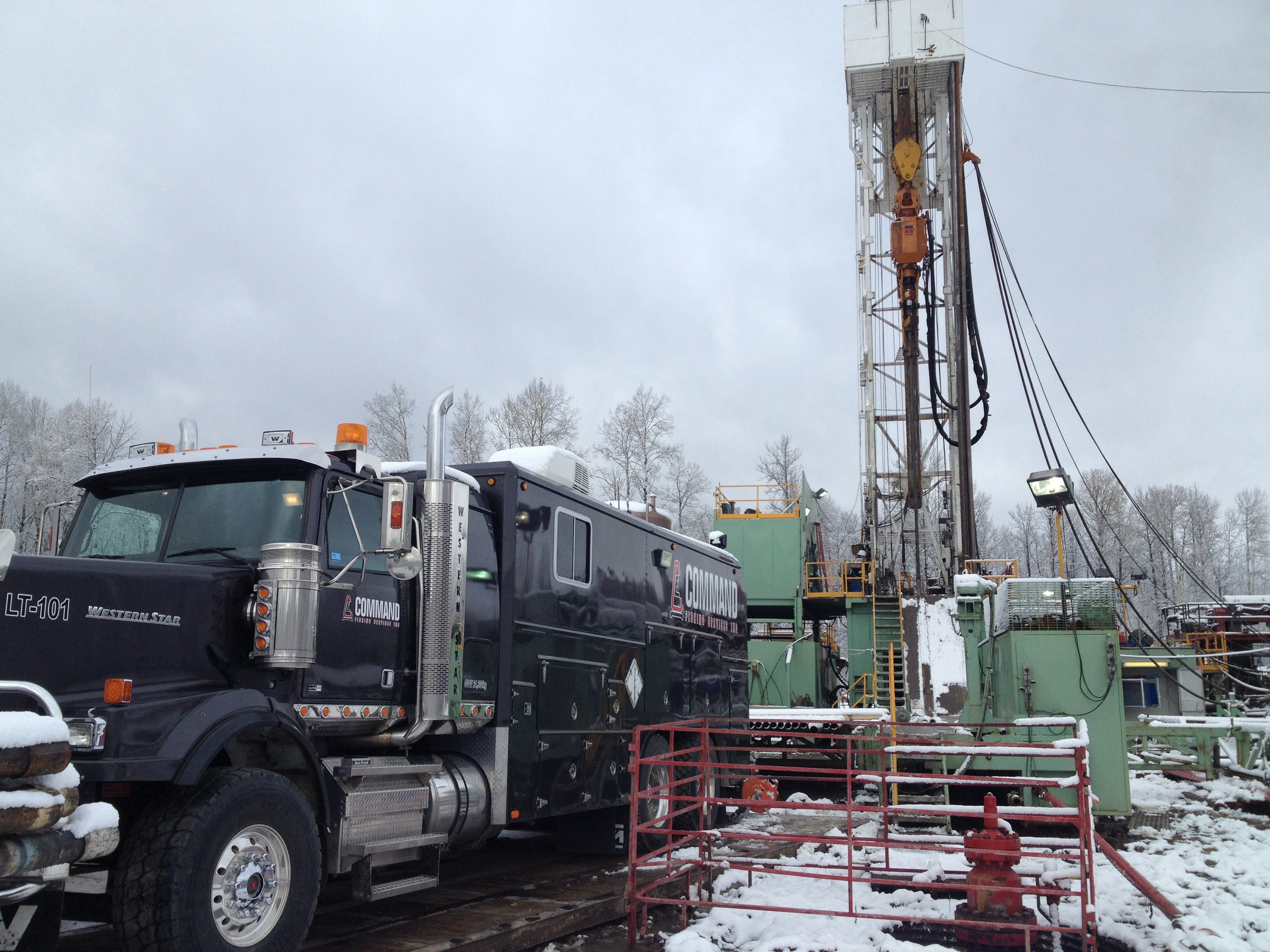 Command Fishing Services